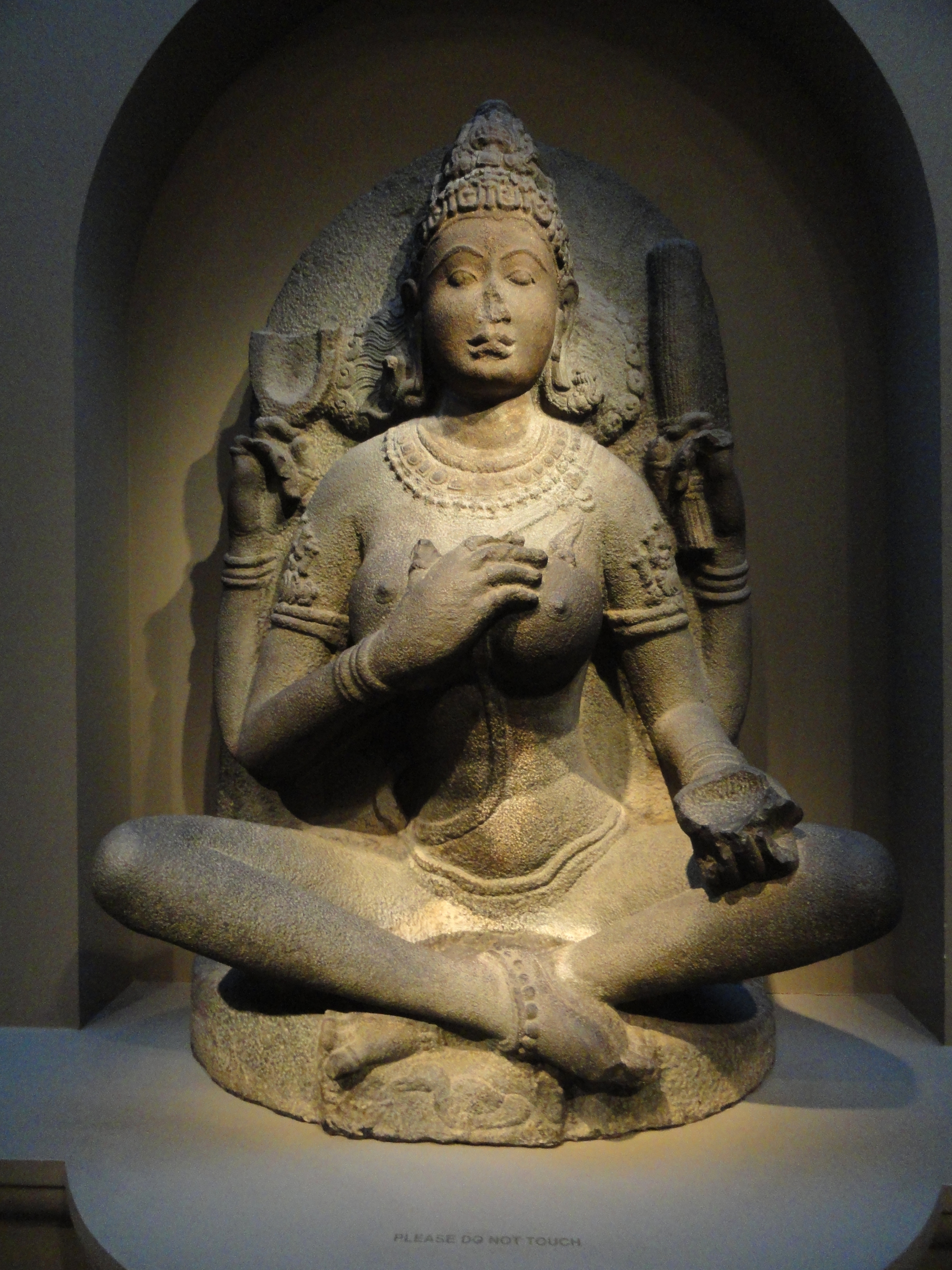 Exhibit in the Arthur M. Sackler Gallery, Washington, DC, USA. This artwork is old enough so that it is in the public domain.